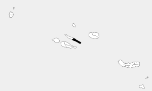 Map of the Azores highlighting Calheta